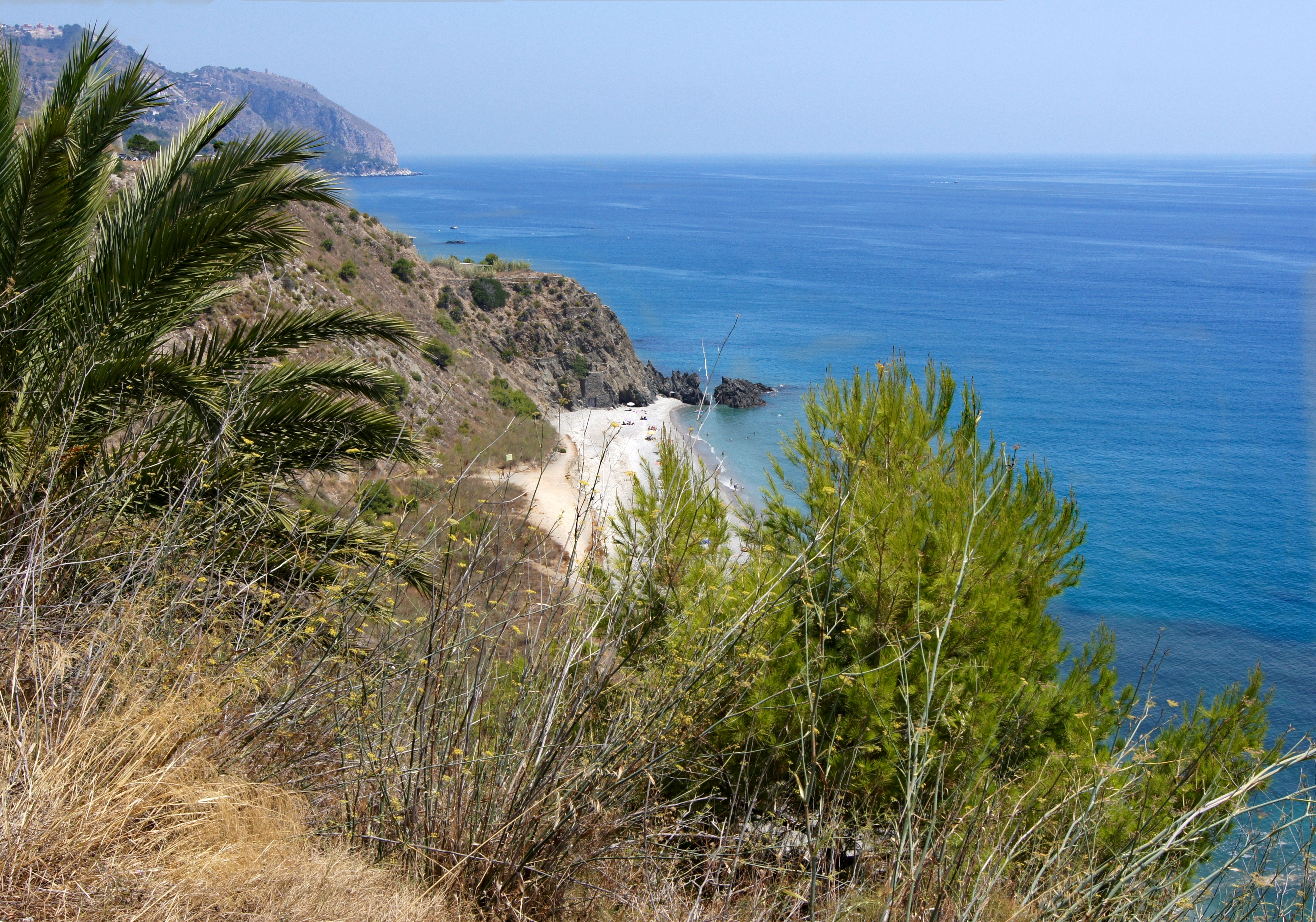 Typical view of the Costa Tropical in front of the mediterranean sea near Salobrena, Andalusia, south of Spain